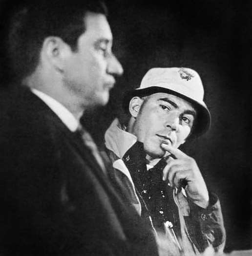 Photograph of two candidates for sheriff of Pitkin County, Colorado, 1970, at the debate held in Snowmass on October 12. "Freak Power" candidate Hunter S. Thompson, at right, regards his opponent, the Democratic candidate and incumbent sheriff Carrol D. Whitmire. Thompson wrote about his campaign in the article "The Battle of Aspen", published in Rolling Stone magazine no. 67 (October 1, 1970); this photo did not run in that article.